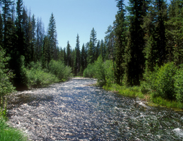 Crescent Creek is a 30-mile (48 km) tributary of the Little Deschutes River in Klamath County in the U.S. state of Oregon.